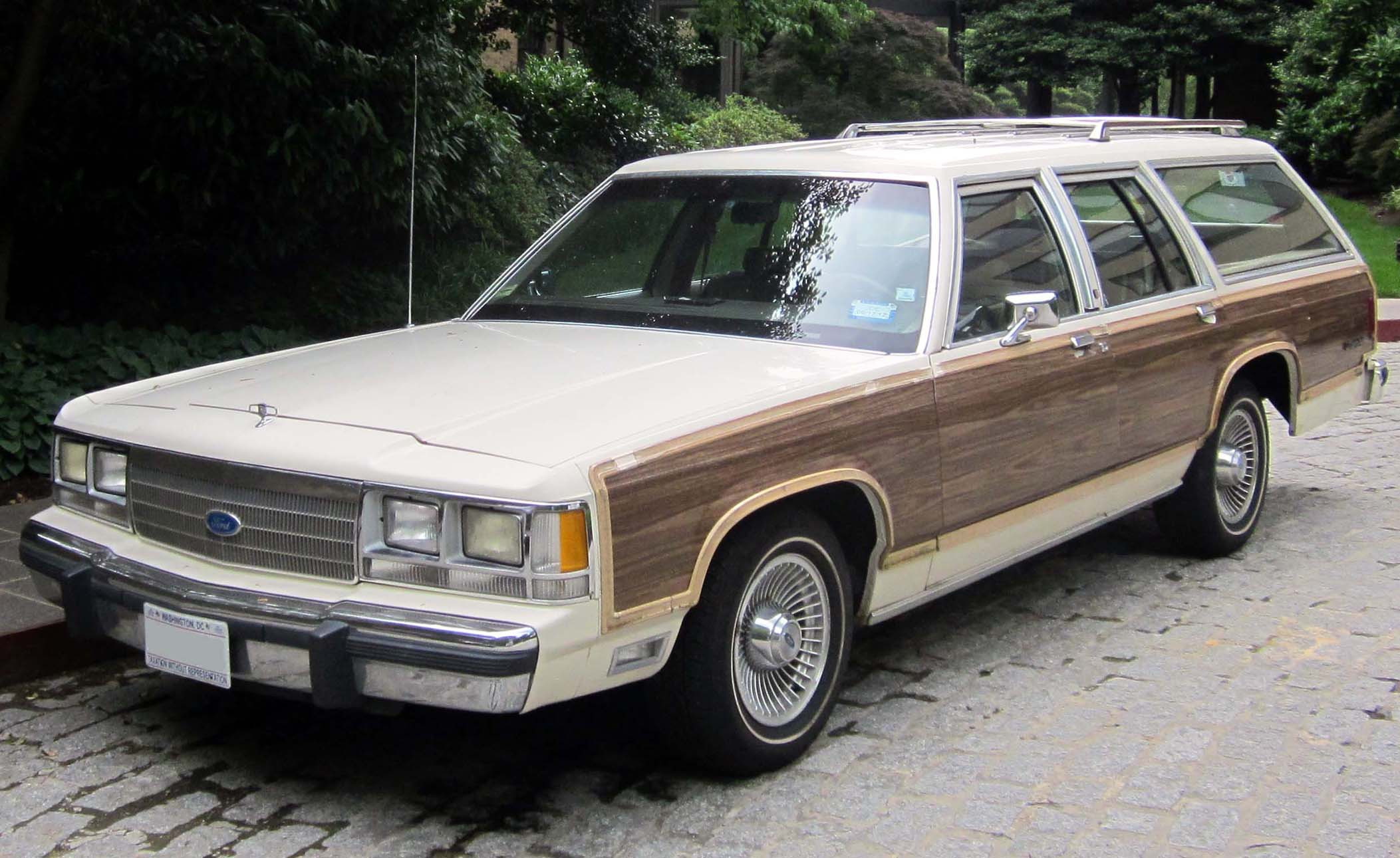 1991 Ford LTD Country Squire photographed in Washington, D.C., USA.